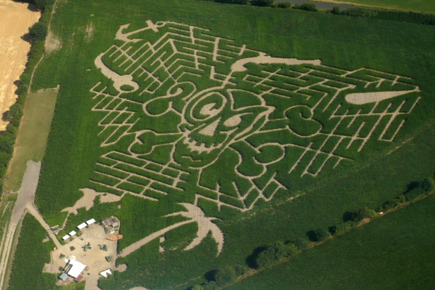 corn labyrinth in Delingsdorf